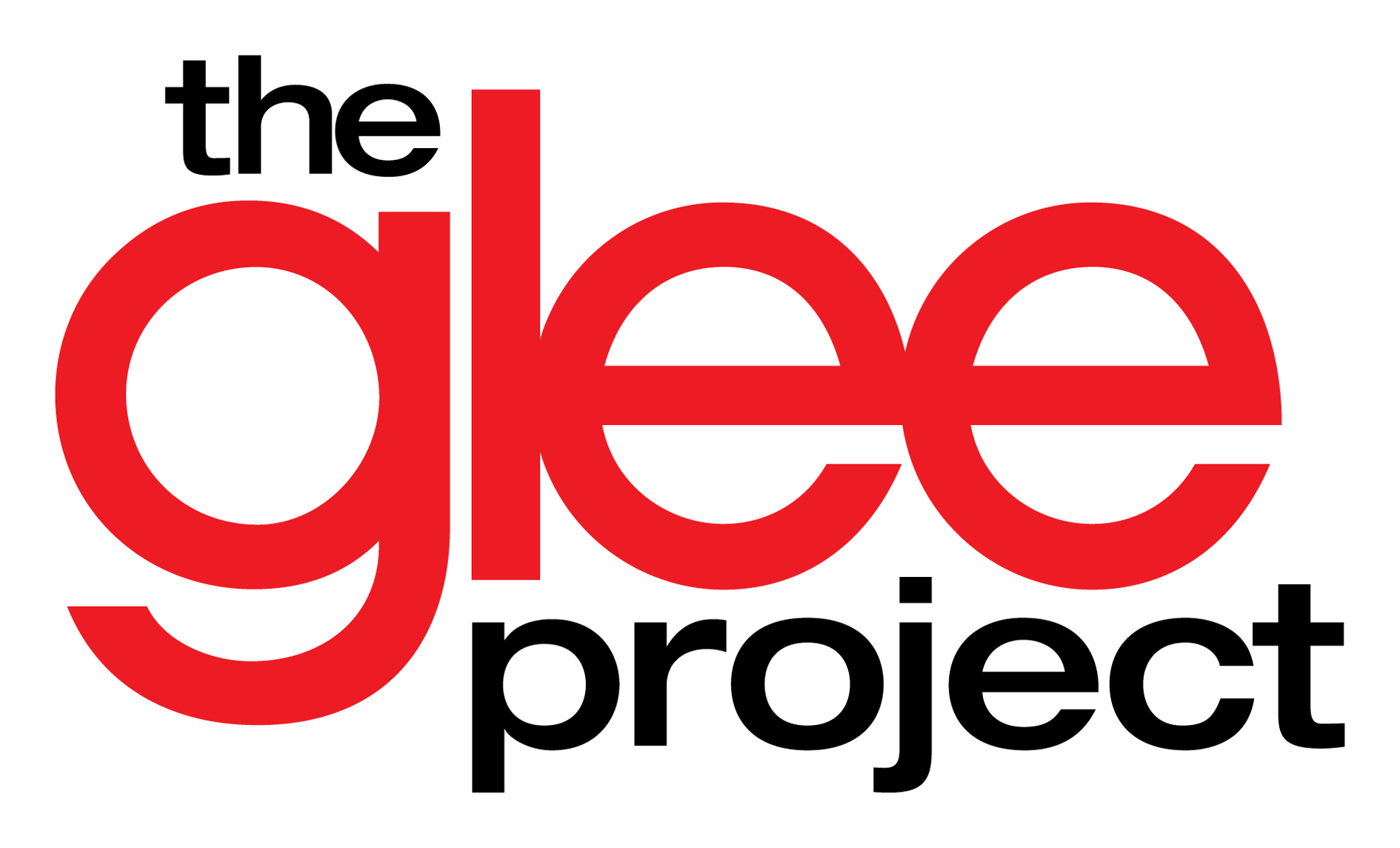 Logo of the TV reality talent show The Glee Project.